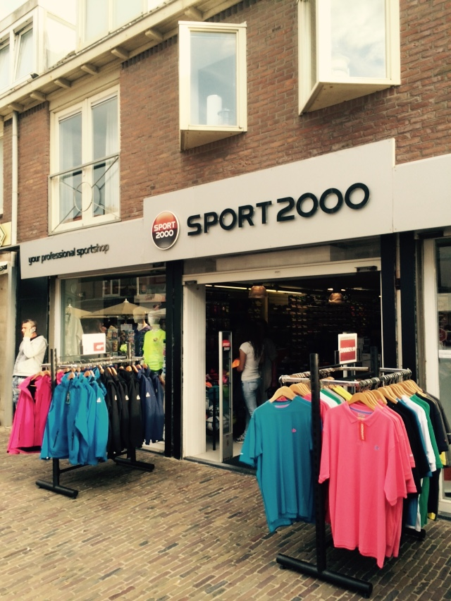 Sport 2000 Shop